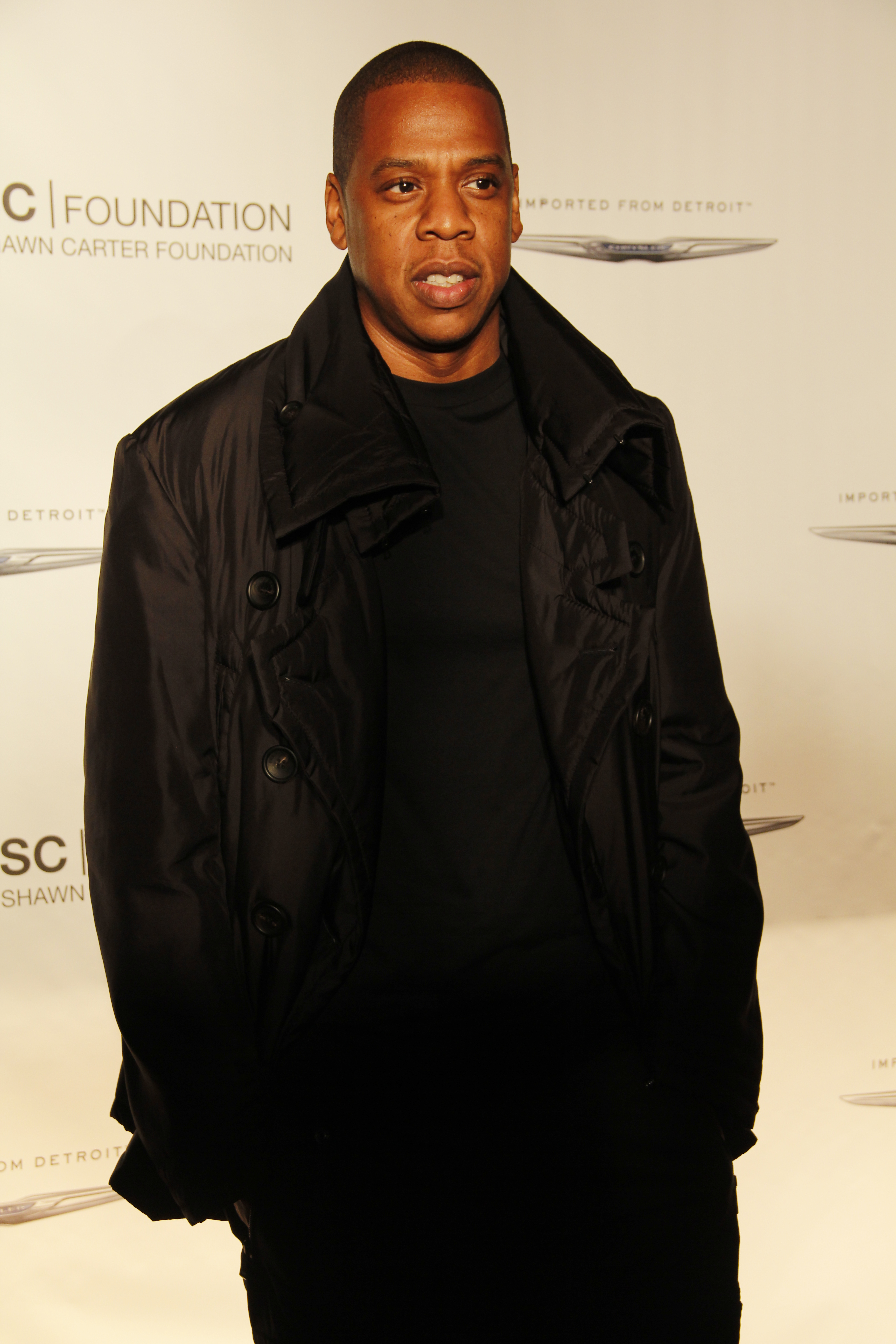 Shawn 'Jay-Z' Carter Foundation Carnival Hudson River Park; Pier 54 September 29th 2011 New York City